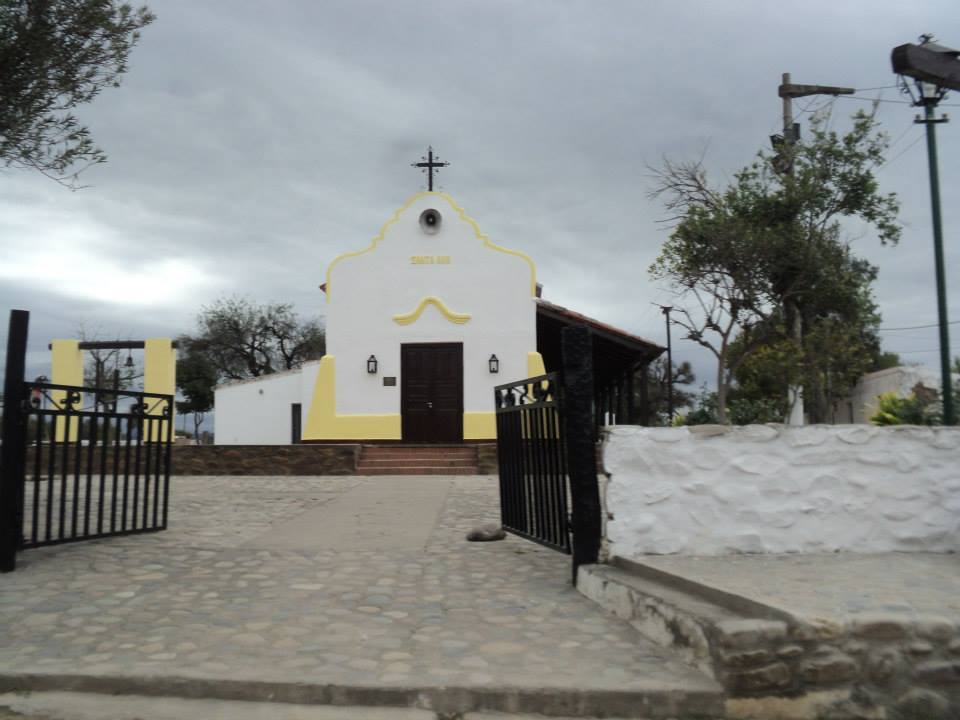 cobos salta